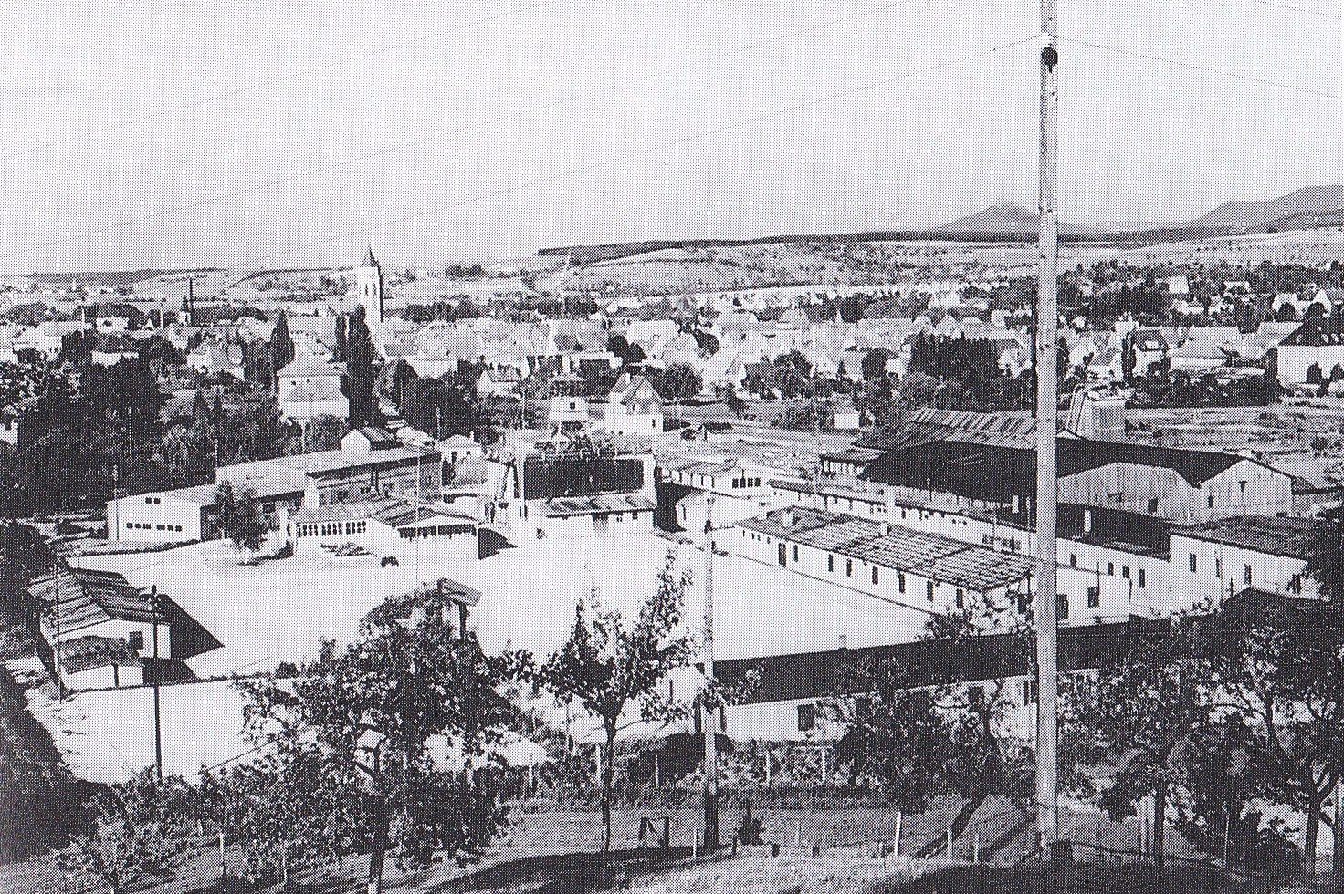 Internment camp in Balingen in South-Western-Germany from 1945-1948. There had the 58 years old Julius Hakenmüller to suffer 3 months from Juli to september 1945, until some collaborators of his by his father 1887 founded textile-enterprise J. Hakenmüller in the today 72461 Albstadt-Tailfingen, had several times intervened to liberate him.